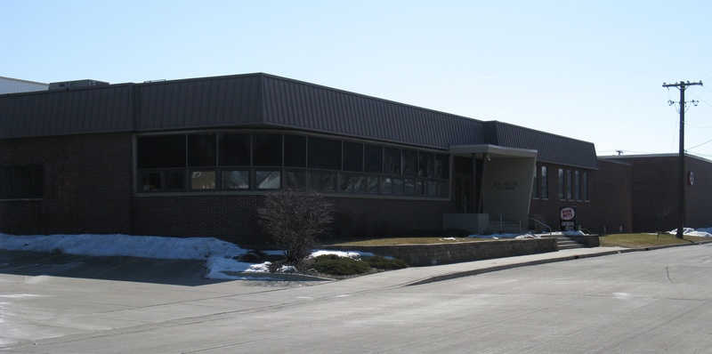 The Beer Nuts Production Plant and Company Store at 103 North Robinson Street, Bloomington, Illinois